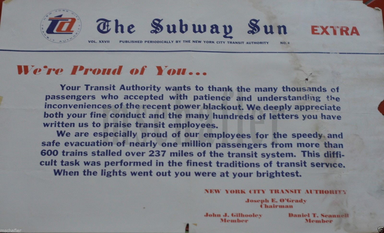 This is the Volume 27, Issue 4 issue of The Subway Sun, which were a series of posters placed in subway cars. This poster was created to thank subway riders for calmly responding to the Northeast blackout of 1965, a response very different than that for the 1977 blackout.